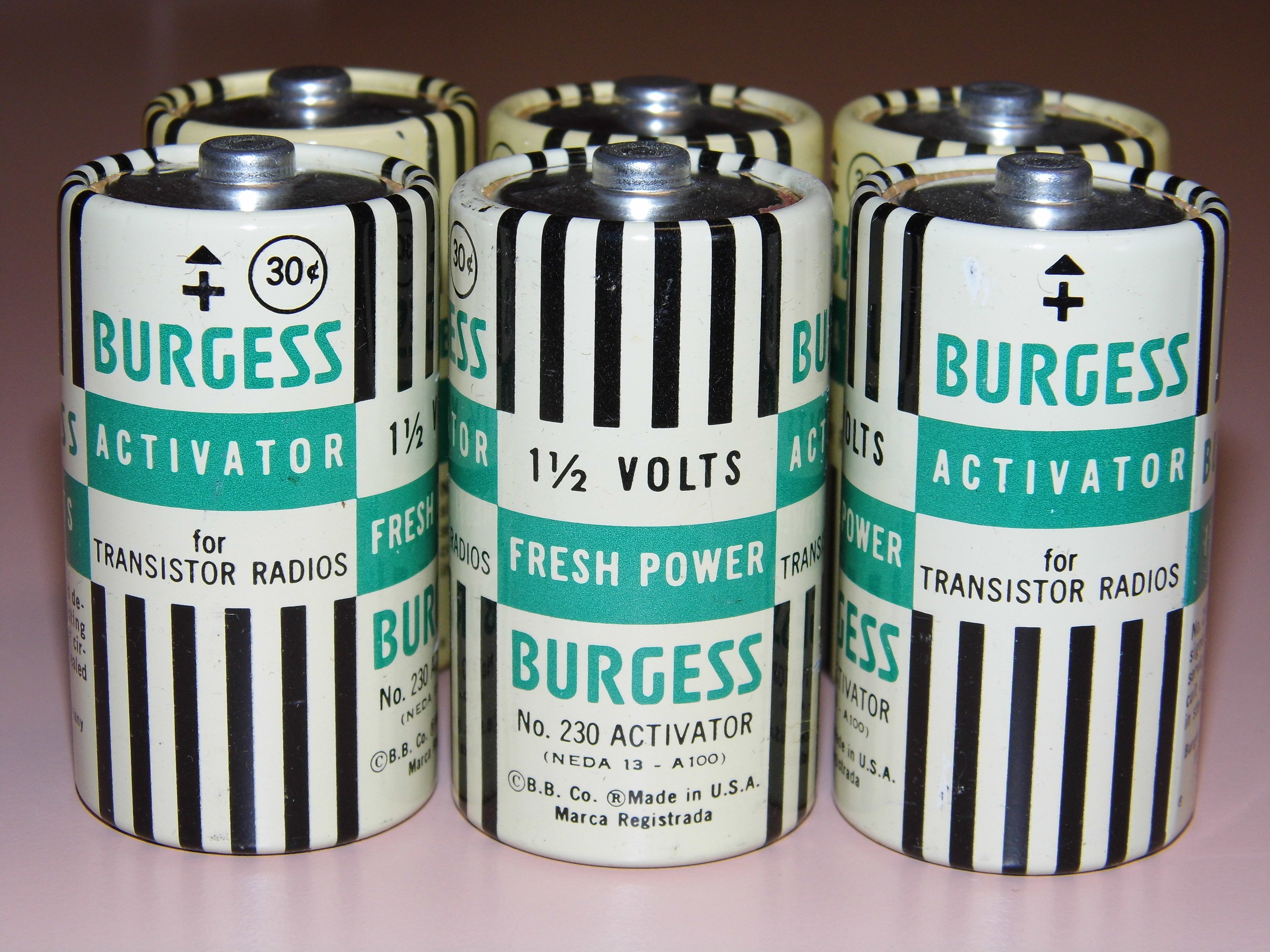 Vintage Burgess Activator Batteries For Transistor Radios (NEDA 13 = Size D)